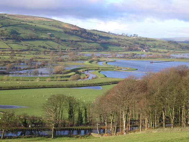 Overflowing Aire The River Aire has overflowed its built-up banks into the surrounding fields.